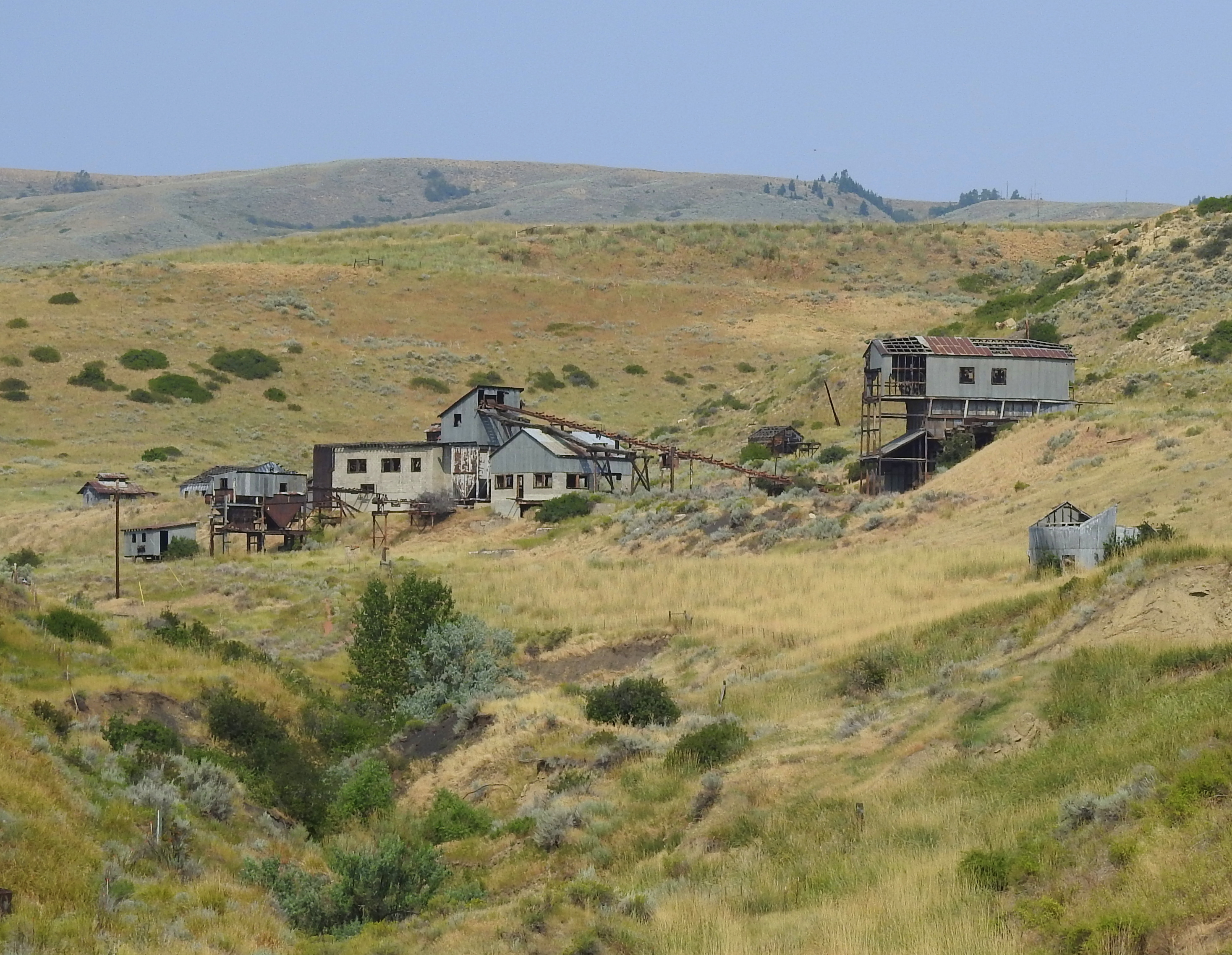 Coal mine where 74 men lost their lives in 1943 from a methane explosion.